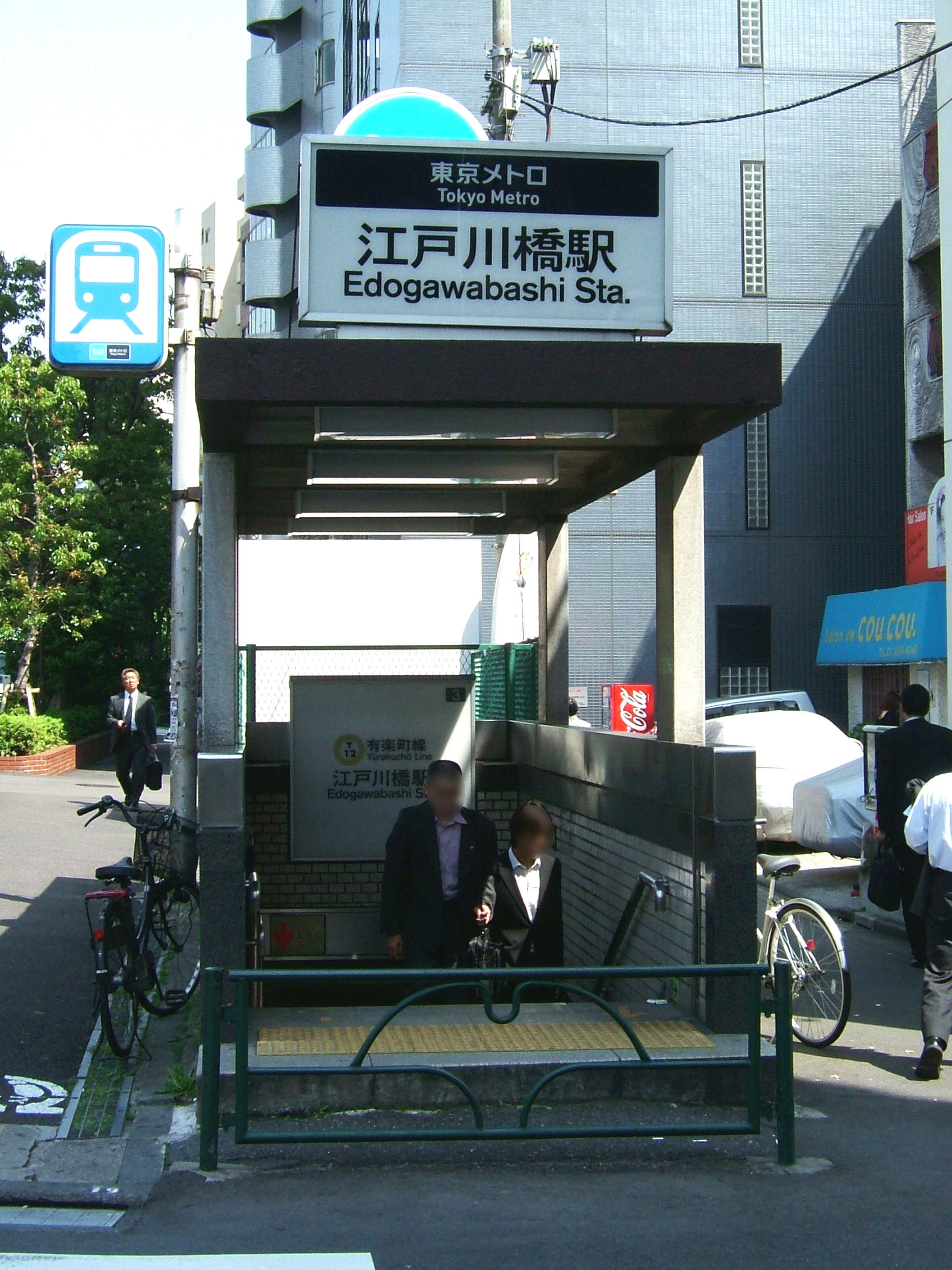 Edogawabashi Station no.3 entrance (Tokyo Metro Yūrakuchō Line)